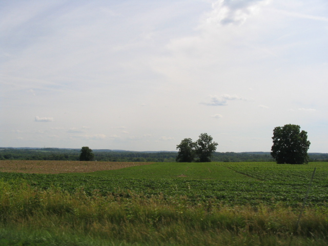 photo of the rolling hills in Lysander, NY, taken by me on July 3, 2007